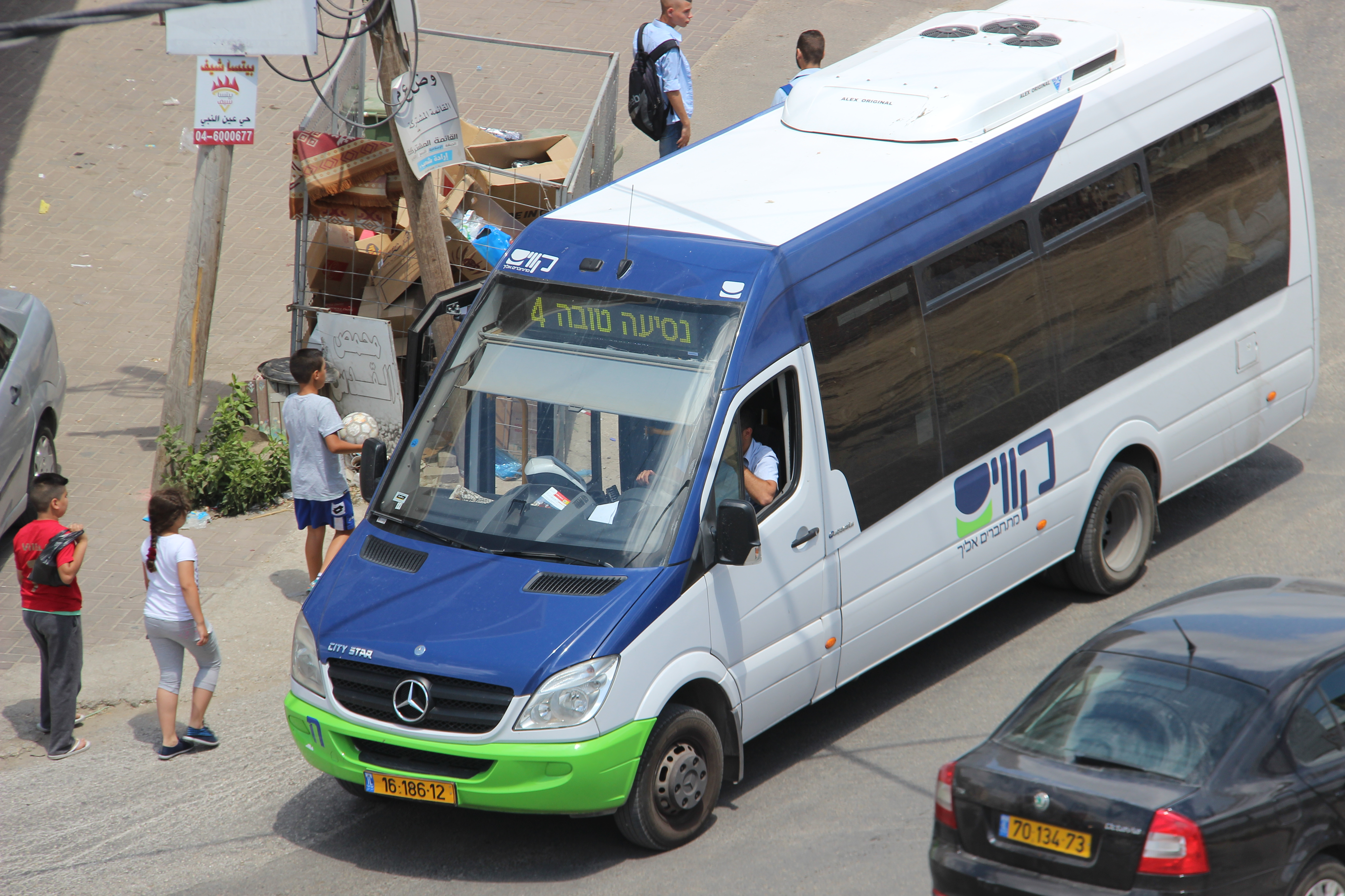 Bus Kavim in Umm al-Fahm